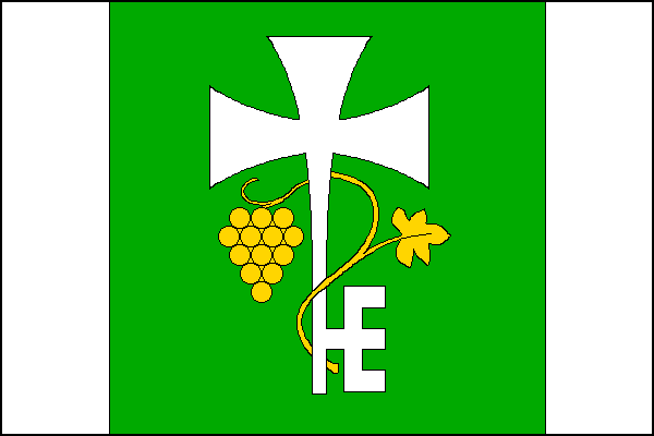 Municipal flag of Petrovice village, Znojmo District, Czech Republic.